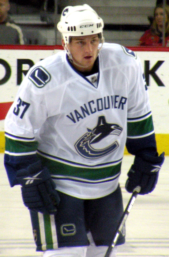 Vancouver Canucks forward Rick Rypien prior to a National Hockey League game against the Calgary Flames, in Calgary.